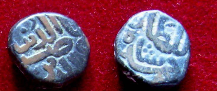 This is a copper coin of Ahmad Shah weighing 4.7 Gms.Legend reads on the Obv.As sultan Ahmad Shah.